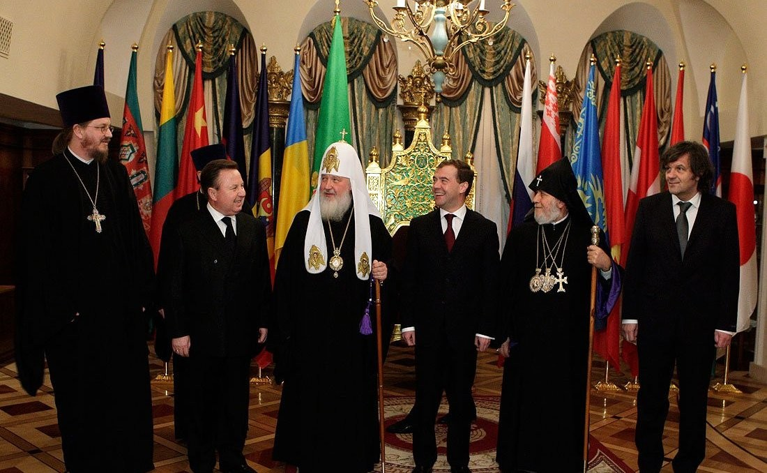 Dmitry Medvedev at Award Ceremony of the International Foundation for the Unity of Orthodox Christian Nations.